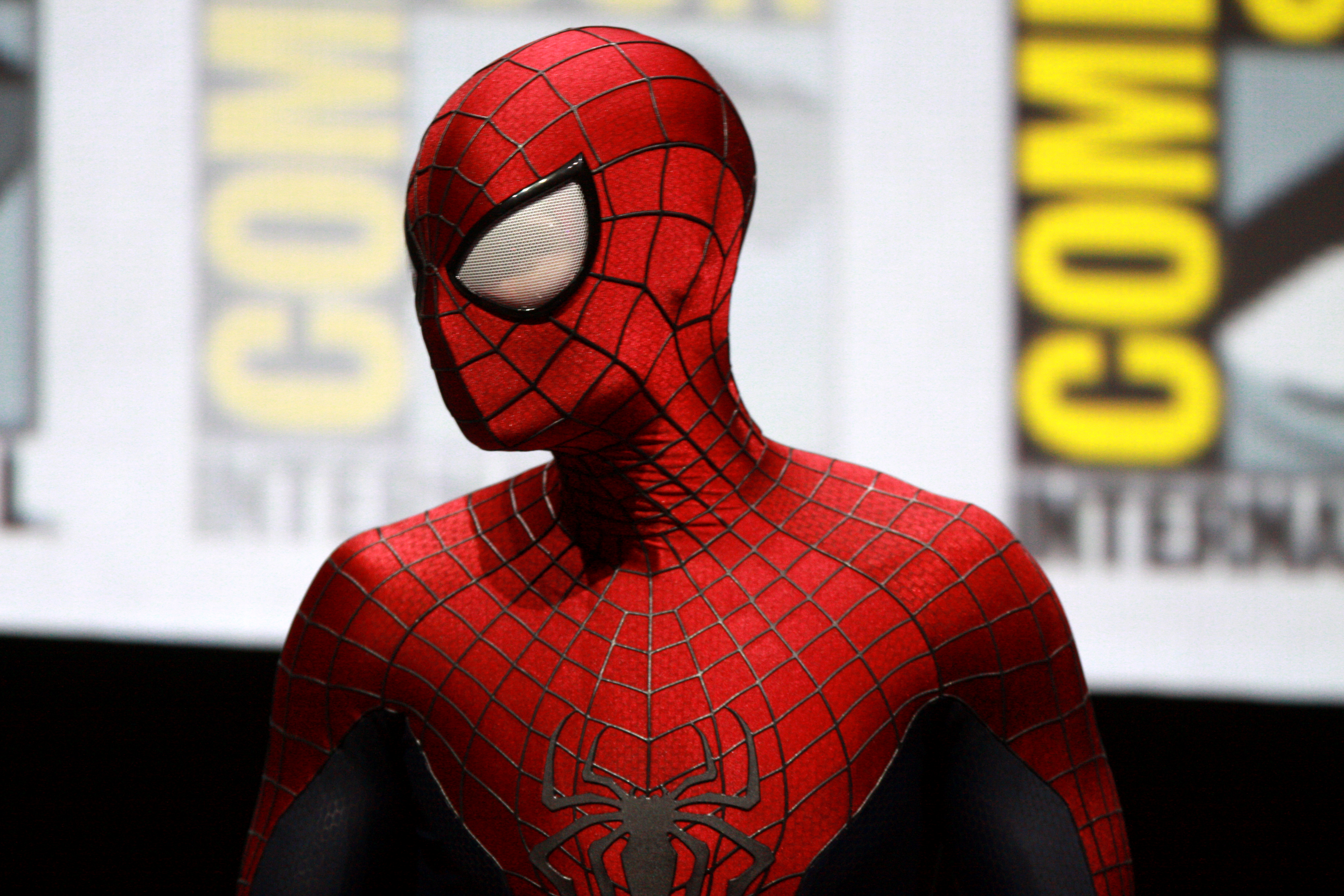 Spider-Man speaking at the 2013 San Diego Comic Con International, for "The Amazing Spider-Man 2", at the San Diego Convention Center in San Diego, California.